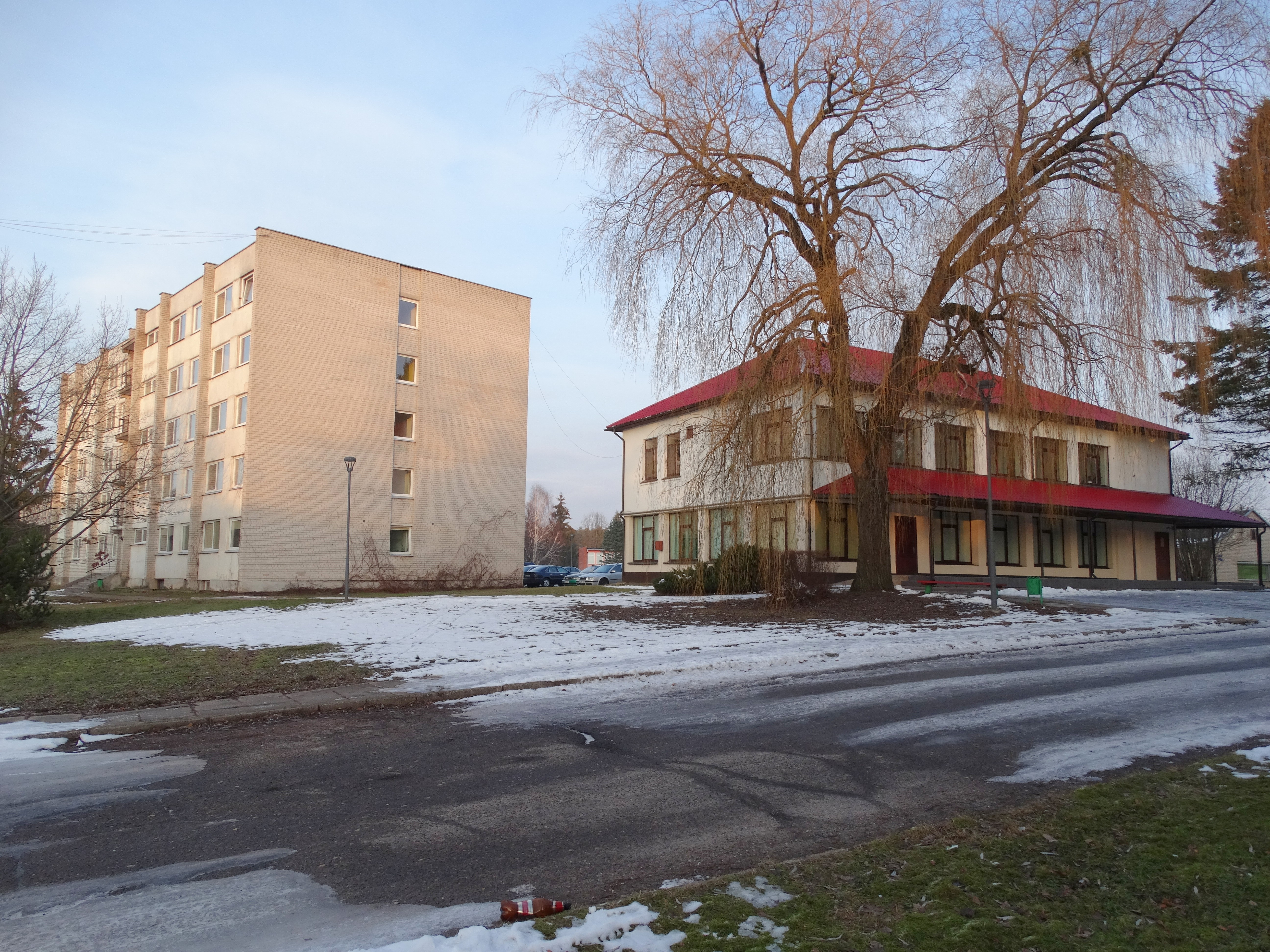 Girionys, Kaunas District, Lithuania